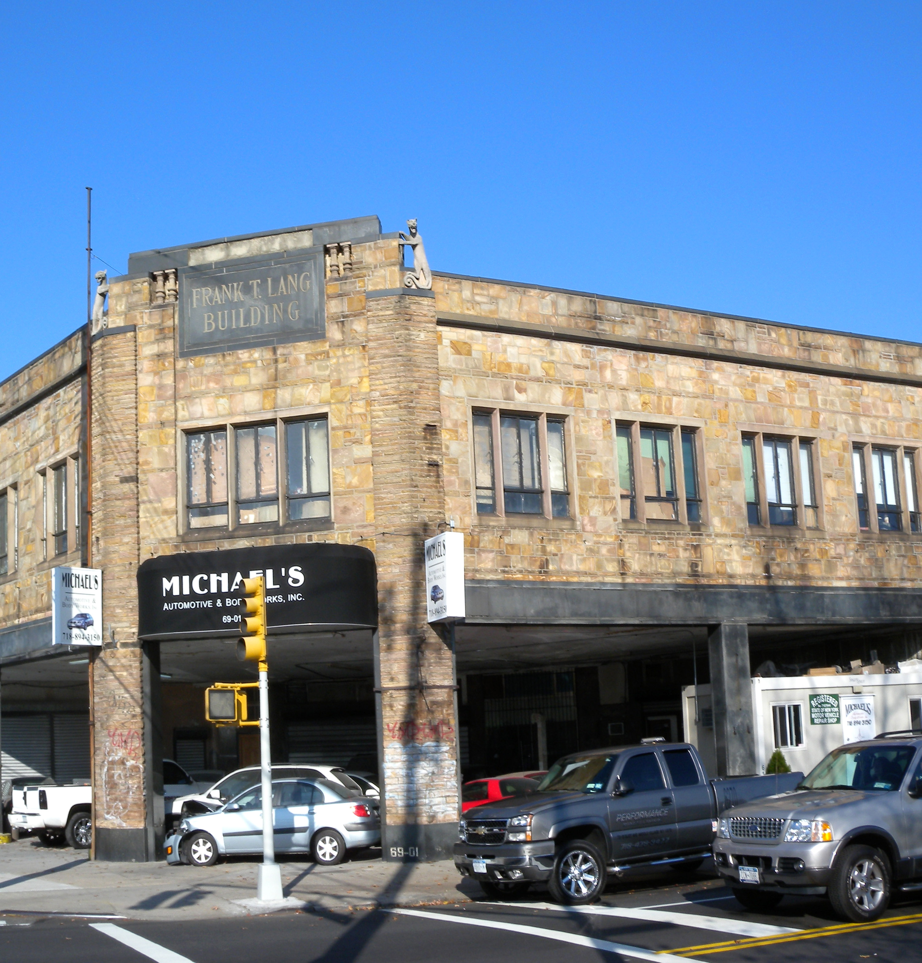 Looking northeast at the former Frank T Lang Building, a shop for tombstones, now an auto repair shop, on a sunny afternoon.